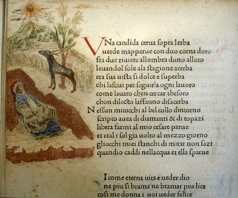 Hand-illustrated page from early printed edition of Petrarch's Canzoniere